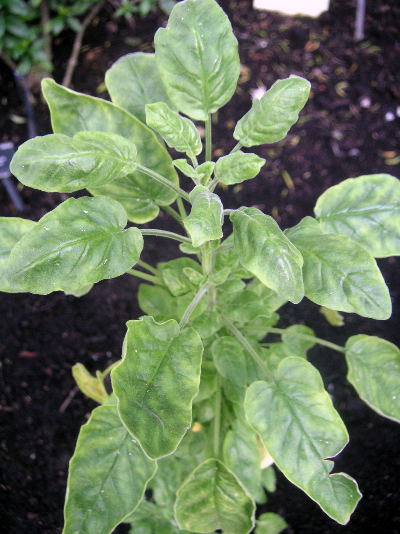 Mellissia begoniifolia, habit, at Kew Gardens, London, UK